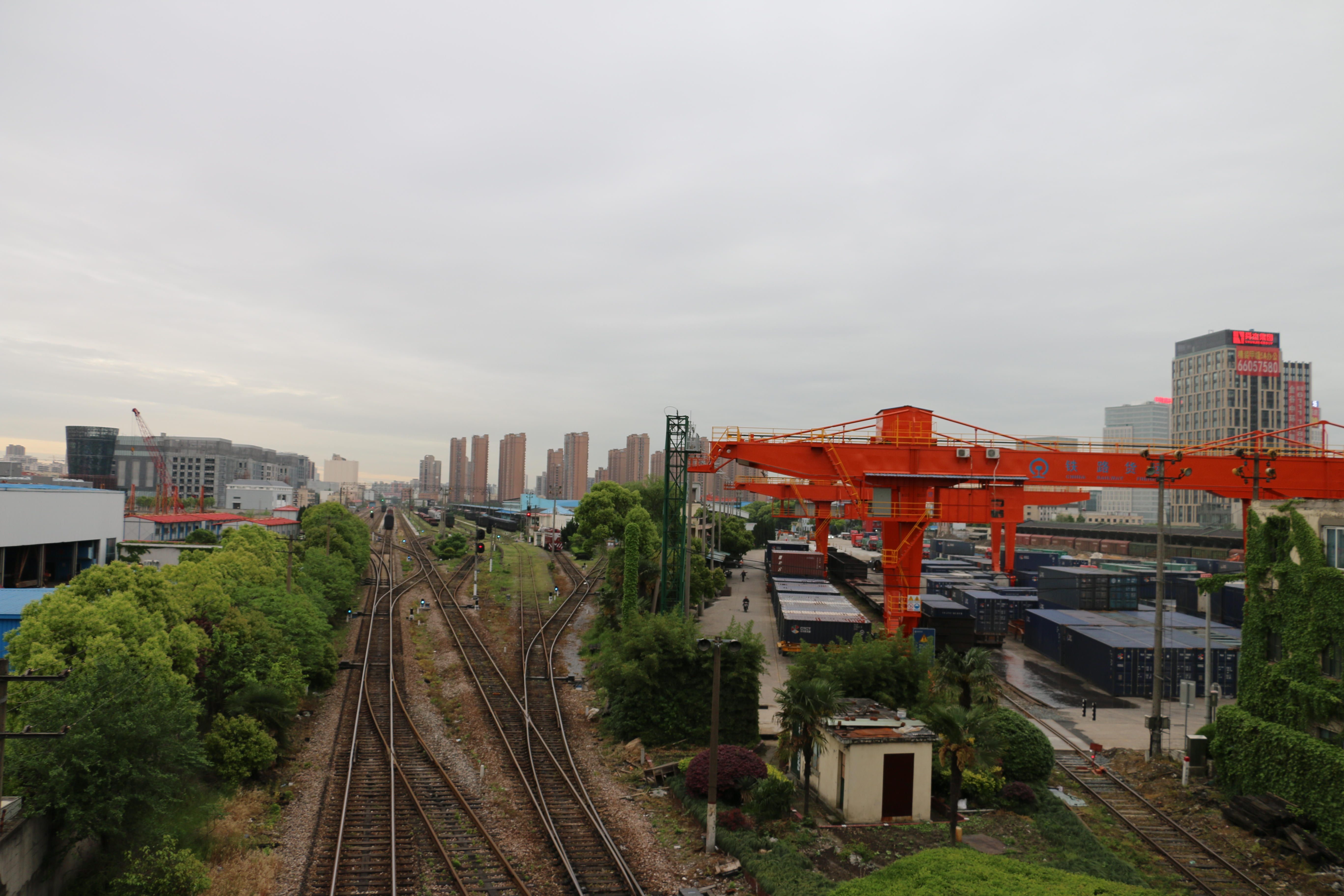 201604 Overview of Beijiao Railway Station